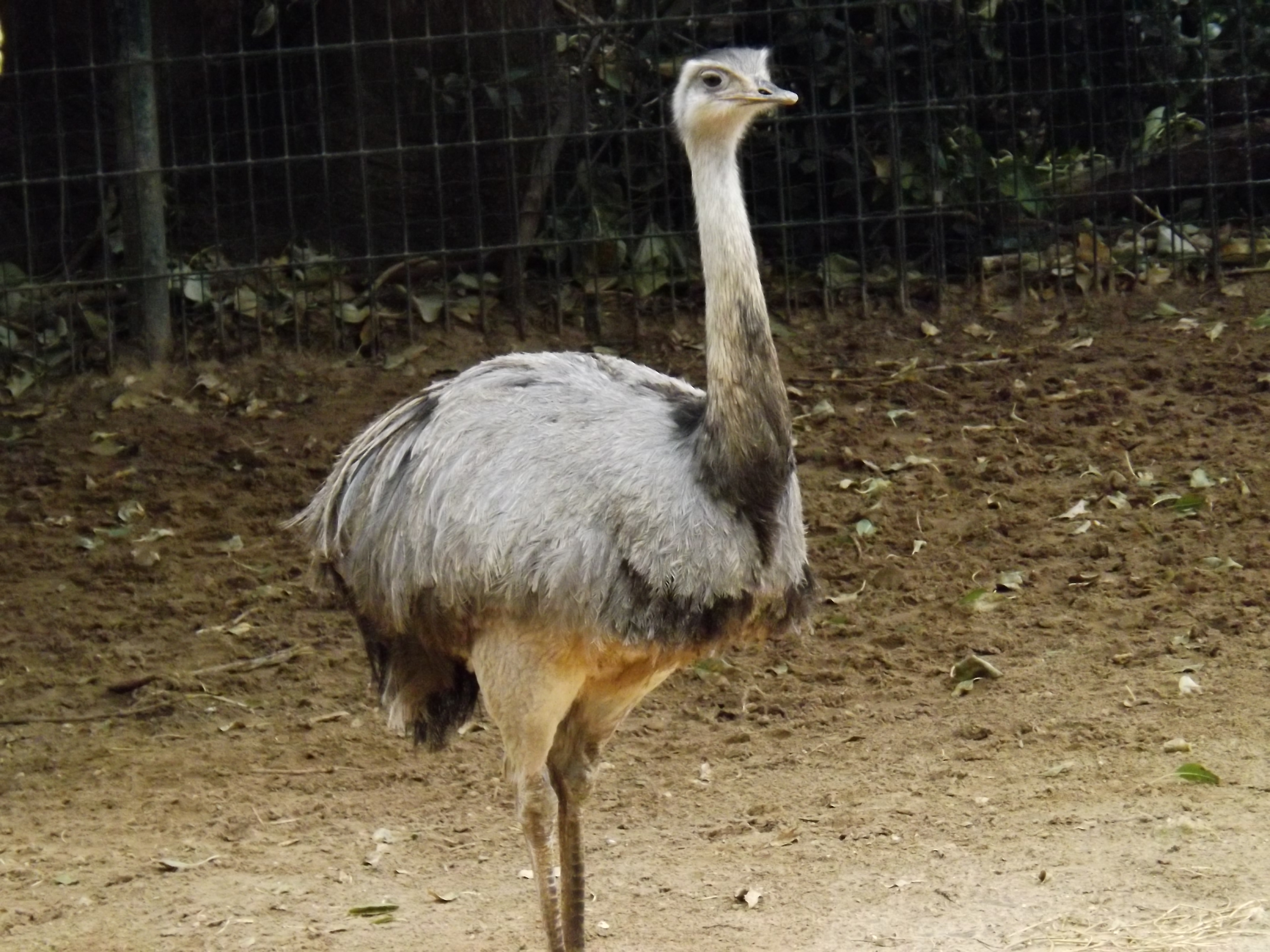 An American Rhea (Rhea americana) at the Jerusalem Biblical Zoo.